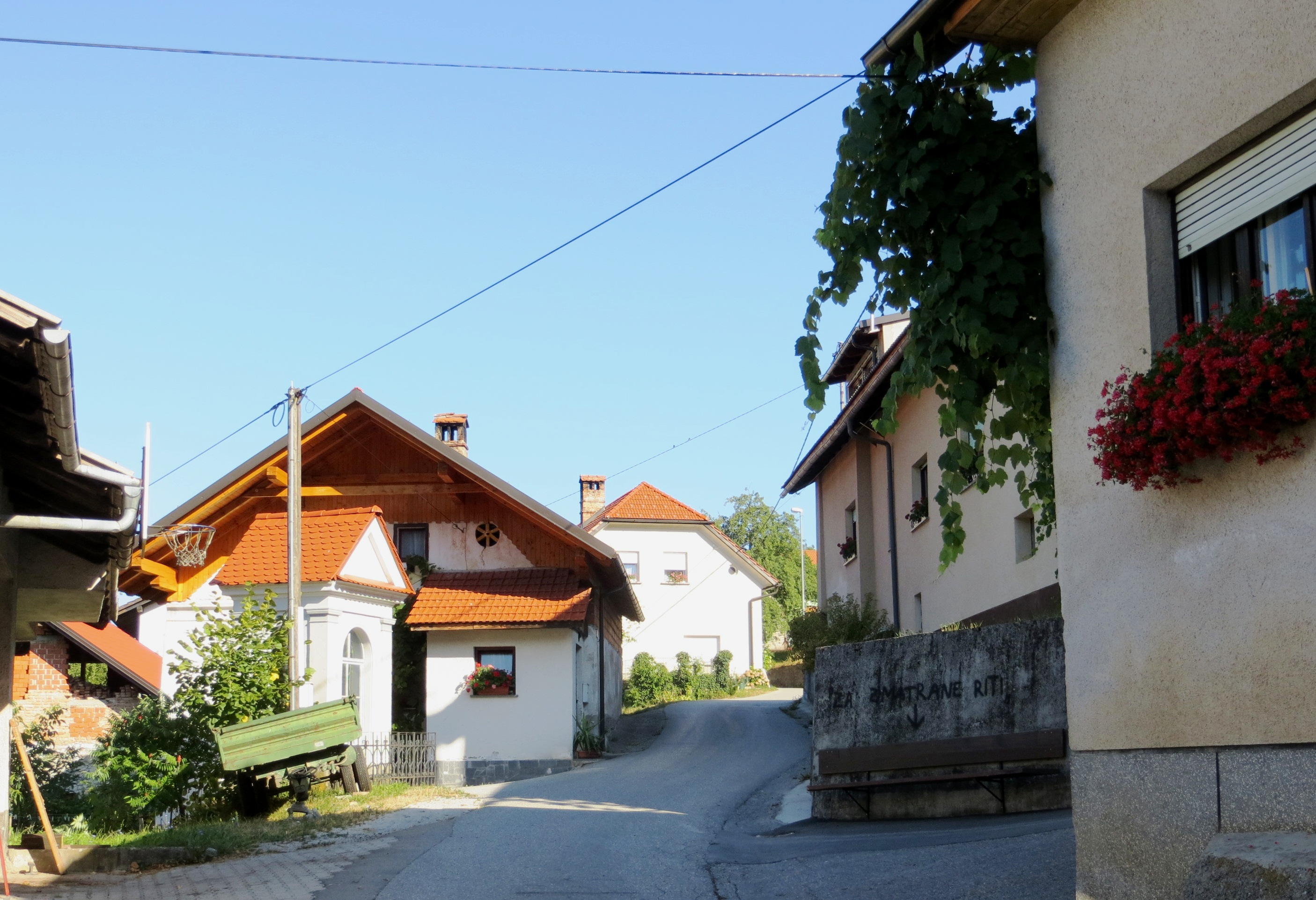 Gorenja Brezovica, Municipality of Brezovica, Slovenia